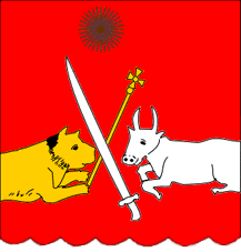 Coat of arms of Kingdom of Kartli